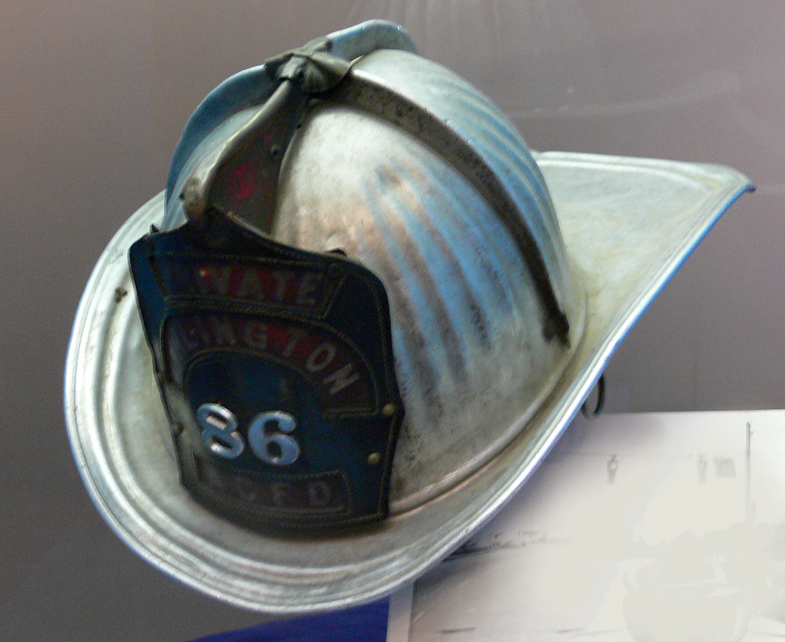 Arlington Fire Department helmet, worn by Judith Brewer, c. 1974, the first American woman employed as a professional firefighter in Arlington, Virginia (courtesy of Judtih Brewer) The Women's Museum, Dallas, Texas